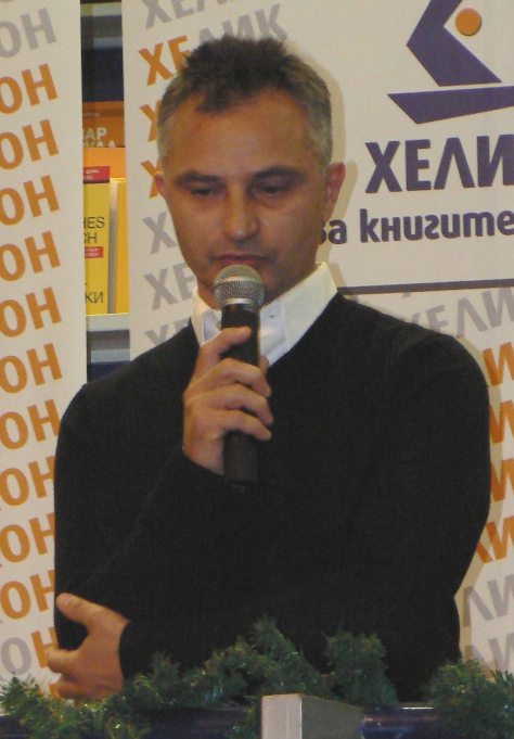 Bulgarian novelist and screenwriter Zahari Karabashliev